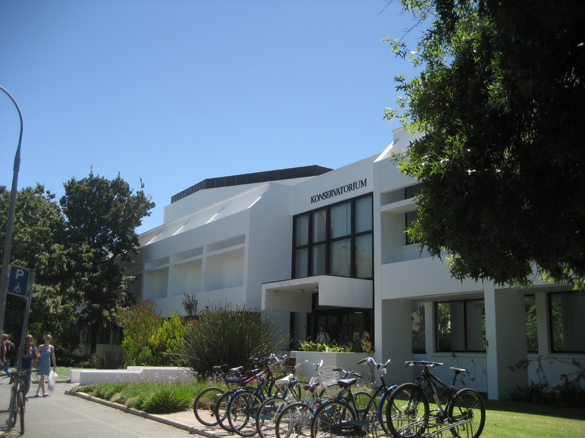 Conservatory Stellenbosch University (South Africa). Bicycles in front ("maties")